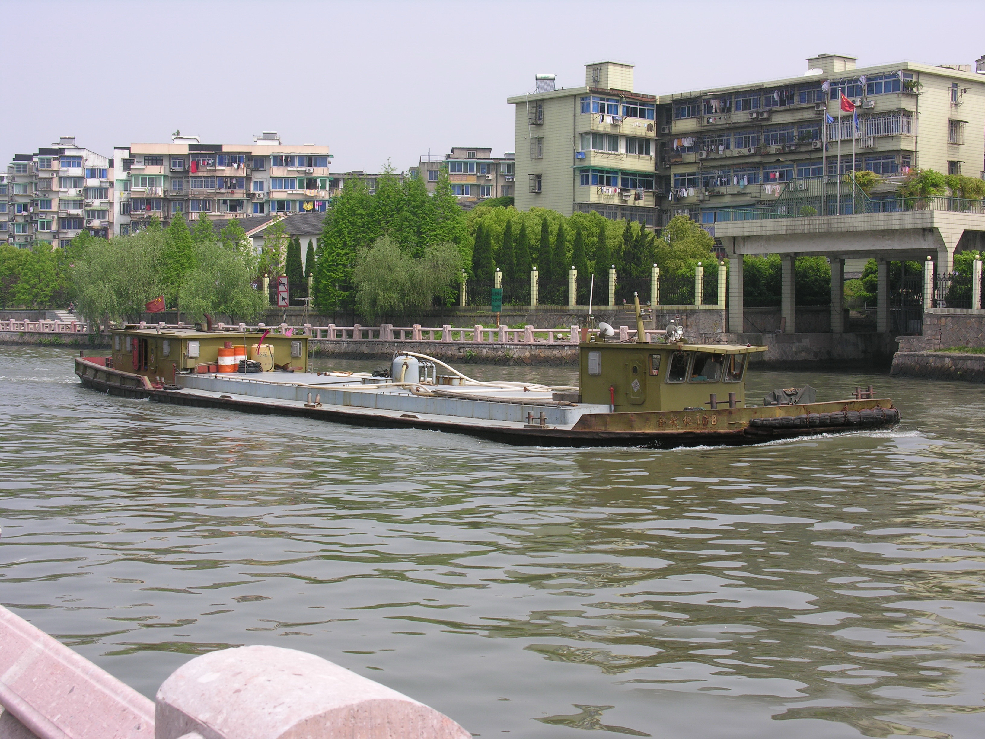 运河上的货船。 by IcaN